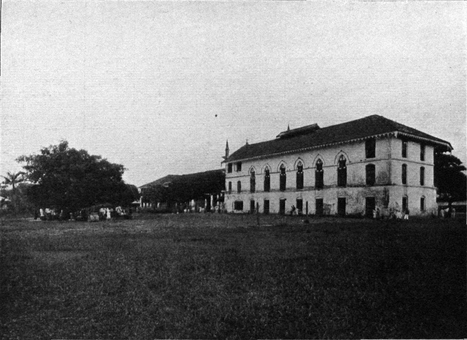 St. Paul's High School in the early 1900s. Now BEHS 6 Botataung မြန်မာဘာသာ: စိန့်ပေါကျောင်း